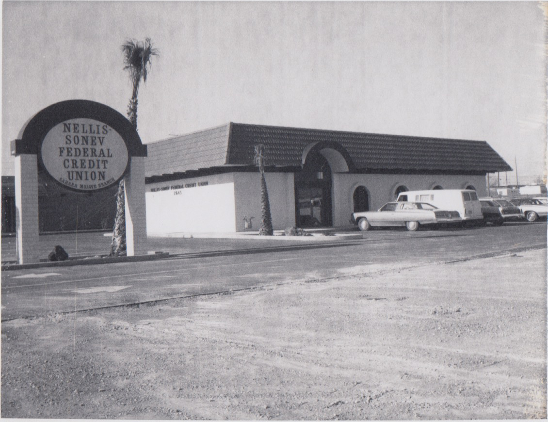 Nellis Southern Nevada Credit Union